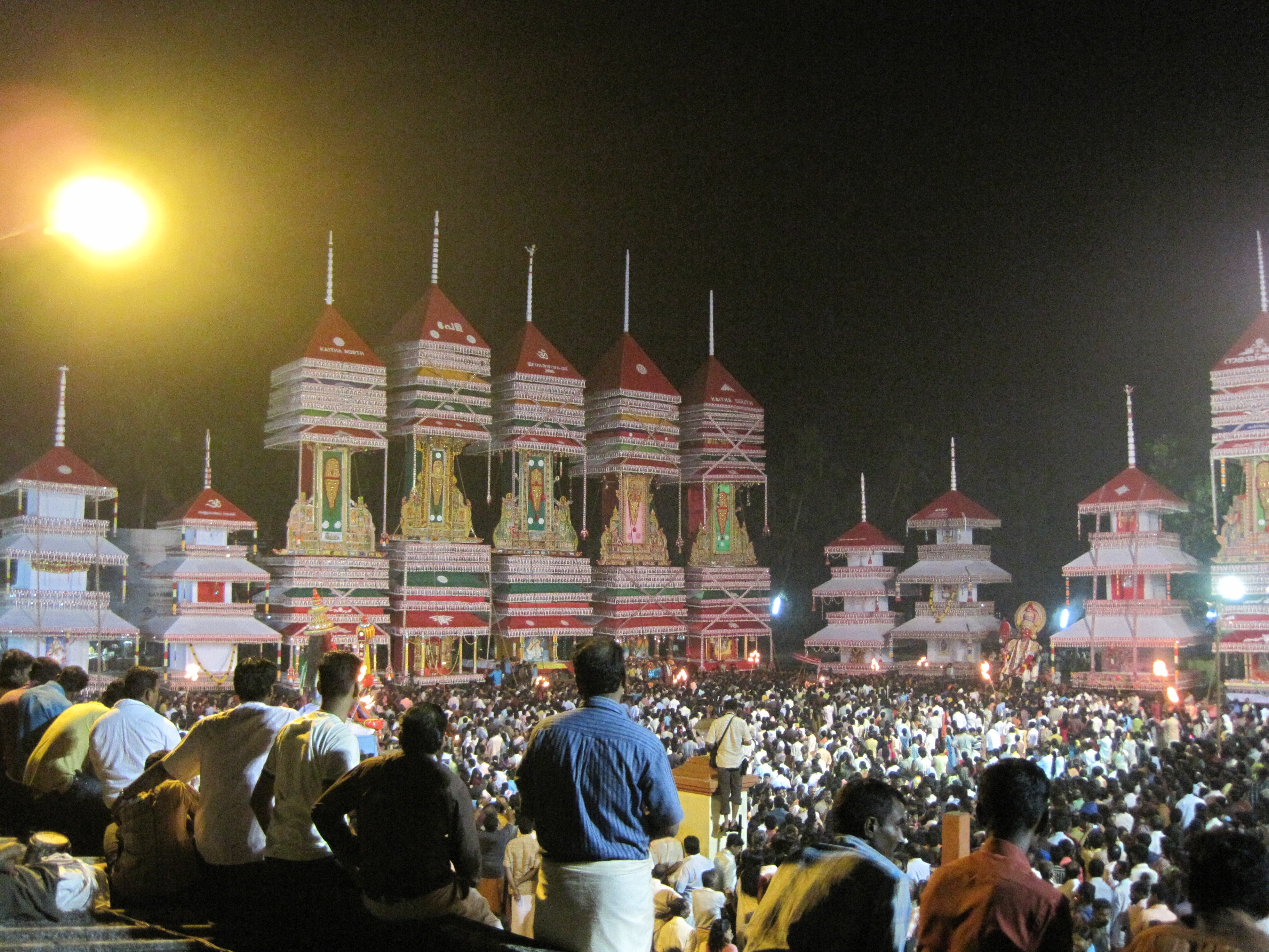 All of the Kettukazhcha at Chettikulangara Devi temple